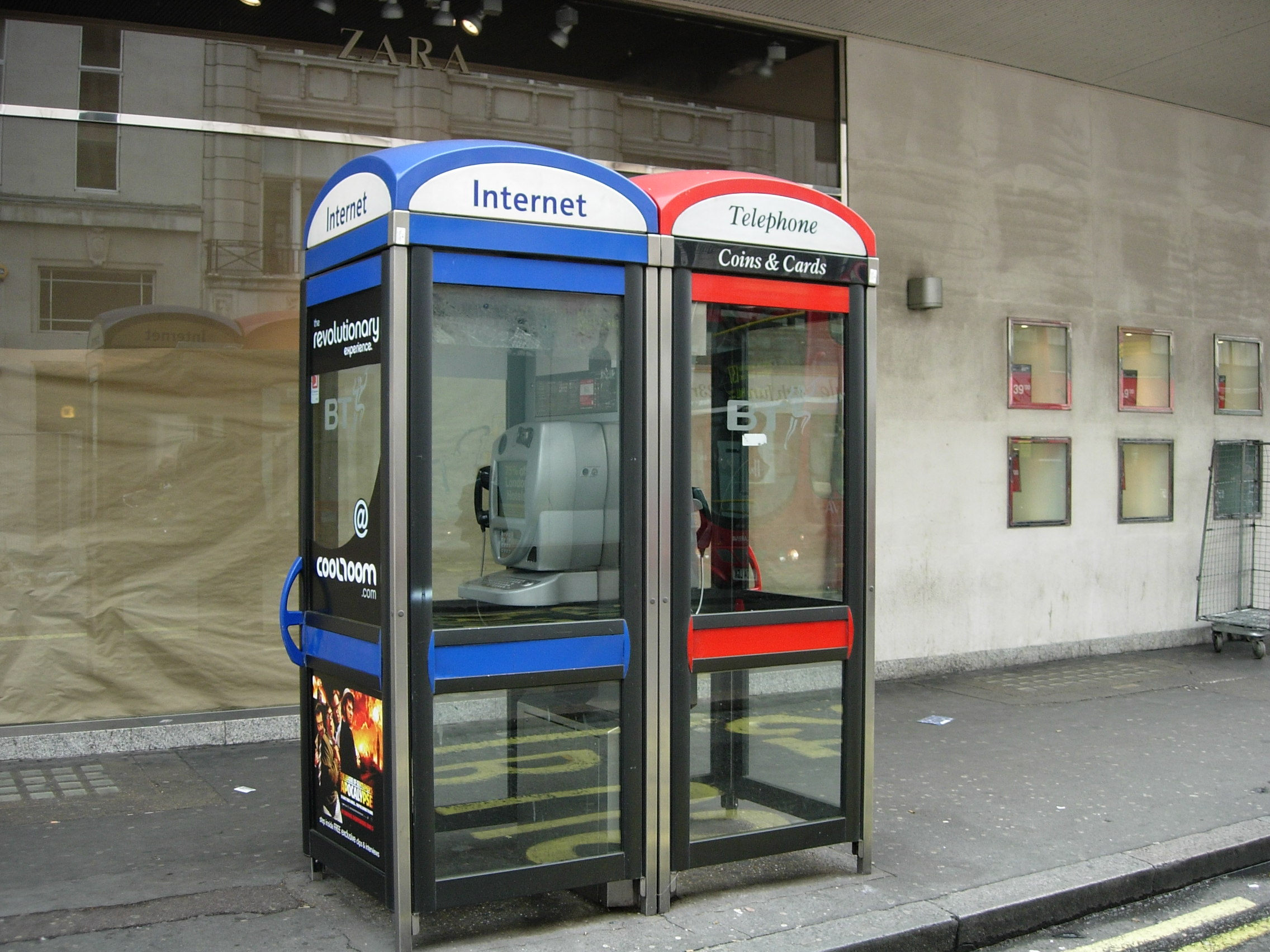 Telephone booth and a internet booth in London, United Kingdom. from BT Group plc (formerly known as British Telecommunications plc)